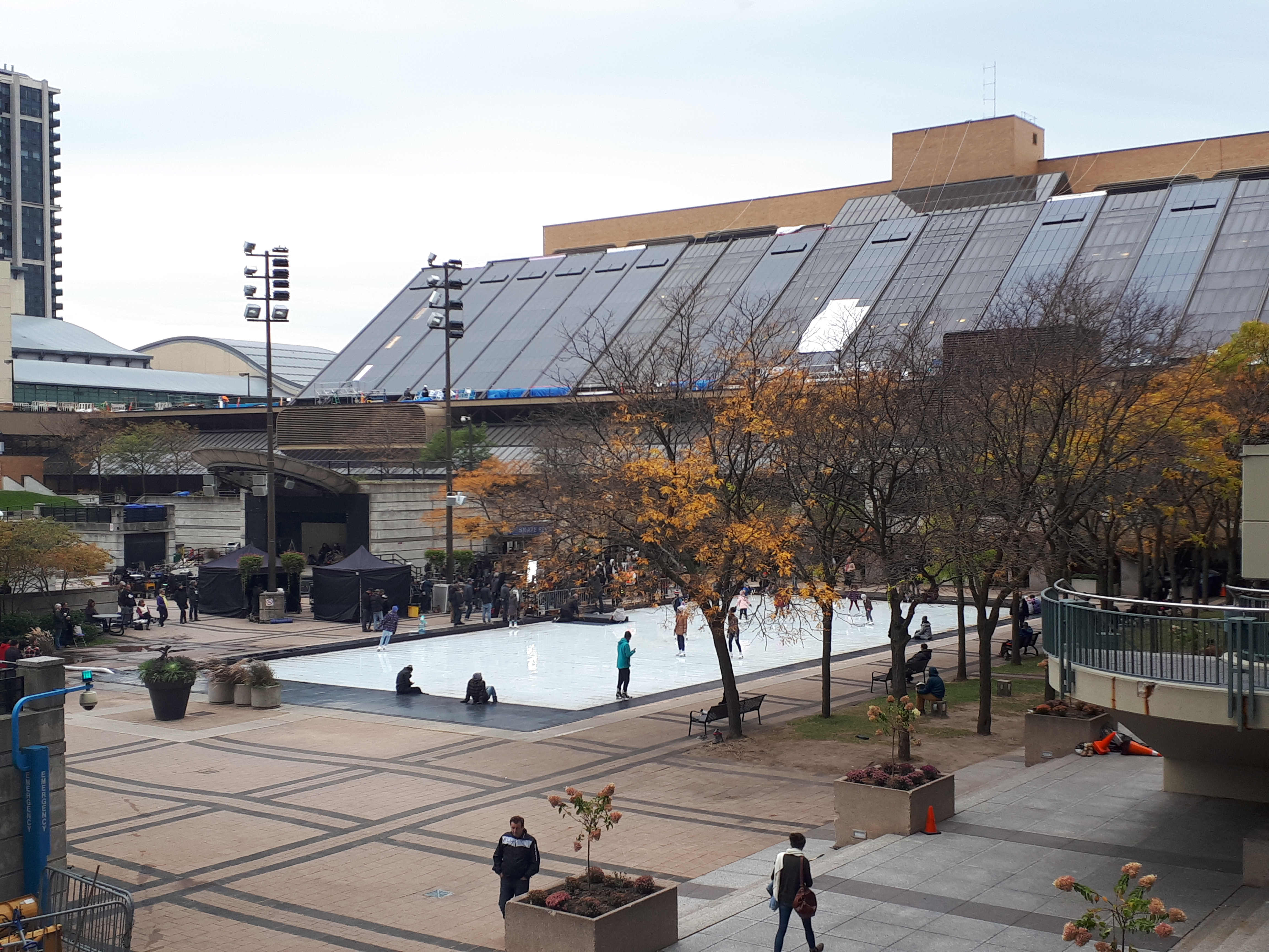 Mel Lastman Square in North York during filming. Filming of the movie in Mel Lastman Square in North York.